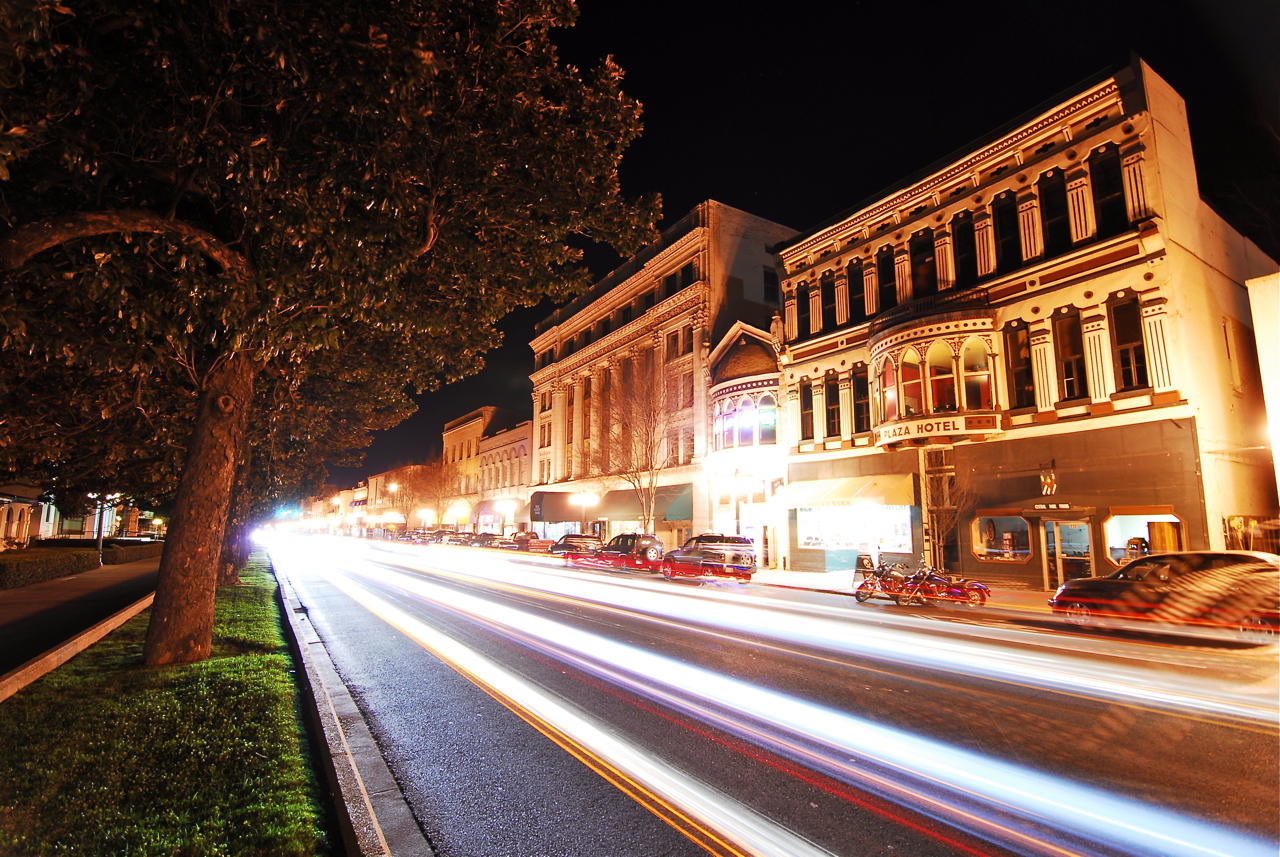 Downtown Hot Springs, AR; bathhouse row is to the left.